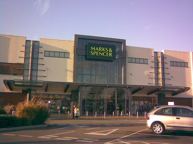 Marks and Spencer, Westwood Cross The new Marks and Spencer store in Westwood Cross has been built to a rather grand, modern design. It certainly stands out from the other shops in the shopping centre and seems to have a much larger food hall than other M&S stores I've seen. I particularly like the way how the late-afternoon autumn sky reflects in the glass panelling underneath the M&S logo. View taken looking northwest towards the roundabout connecting Haine Road (out of shot to the left), Margate Road and Westwood Road.